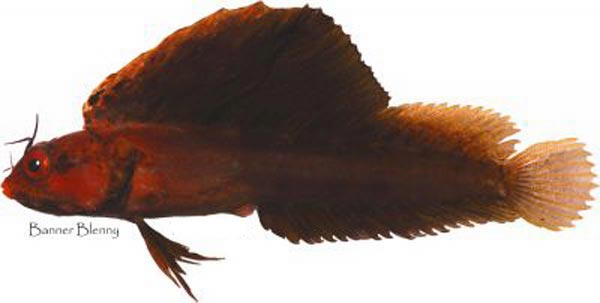 A banner blenny, Emblemaria atlanticus, collected at 240 feet at the West Flower Garden Bank. This fish had not been previously seen in the sanctuary.